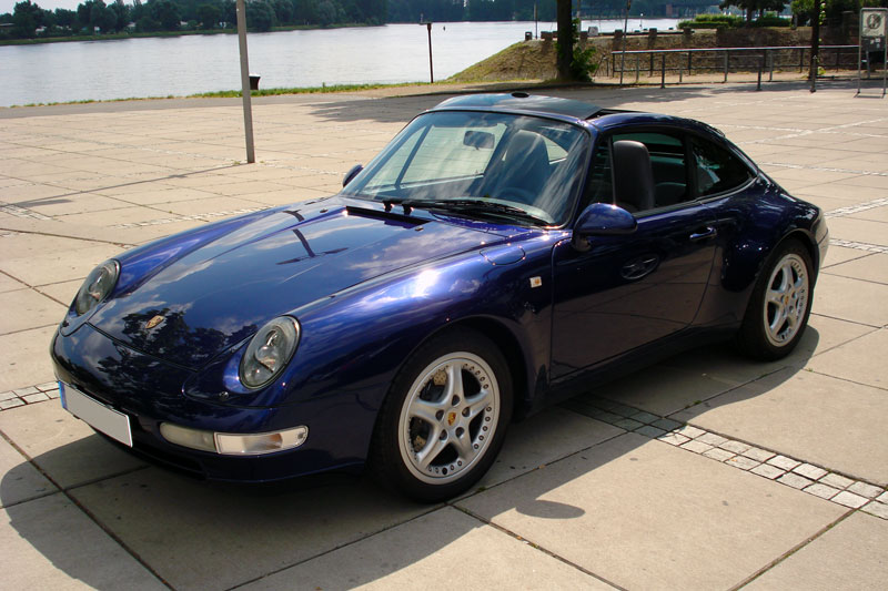 Foto shows an Porsche 993 Targa. The Foto was taken on 14.06.2008 in Mainz at a Porsche-Event.